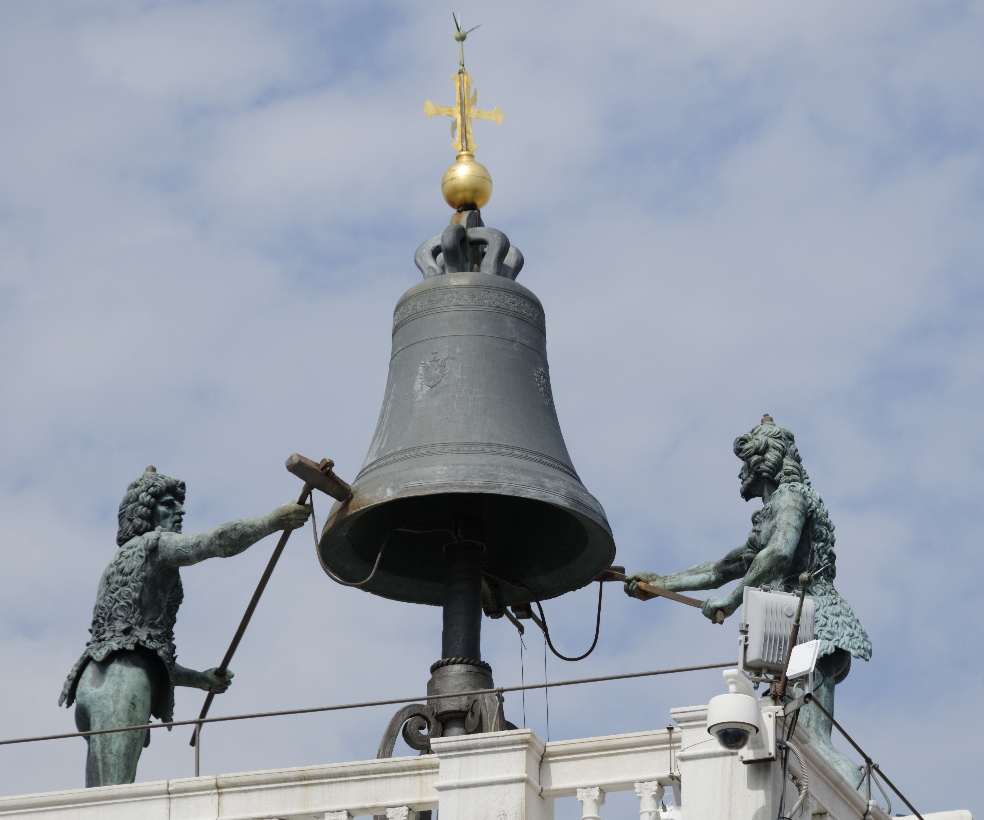 So-called “Moors” striking the hours at the top of the Torre dell’Orologio, Piazza San Marco, Venice.